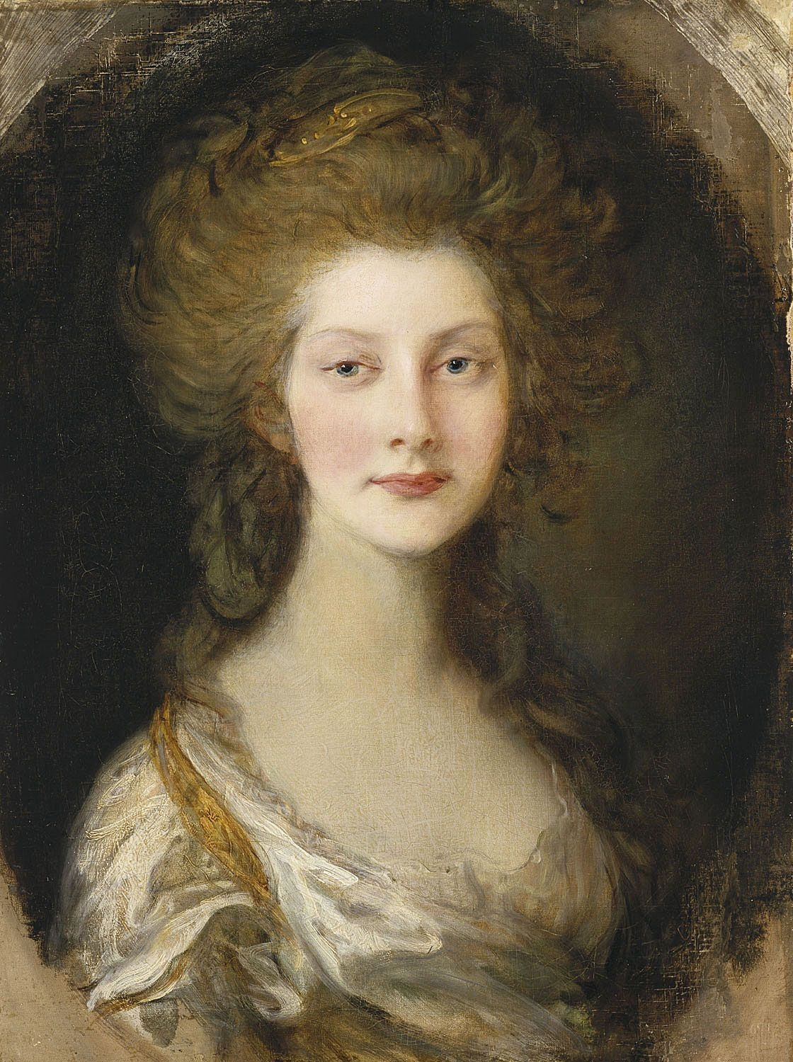 Portrait of Princess Augusta aged 13 in 1782. Part of a group of portraits.